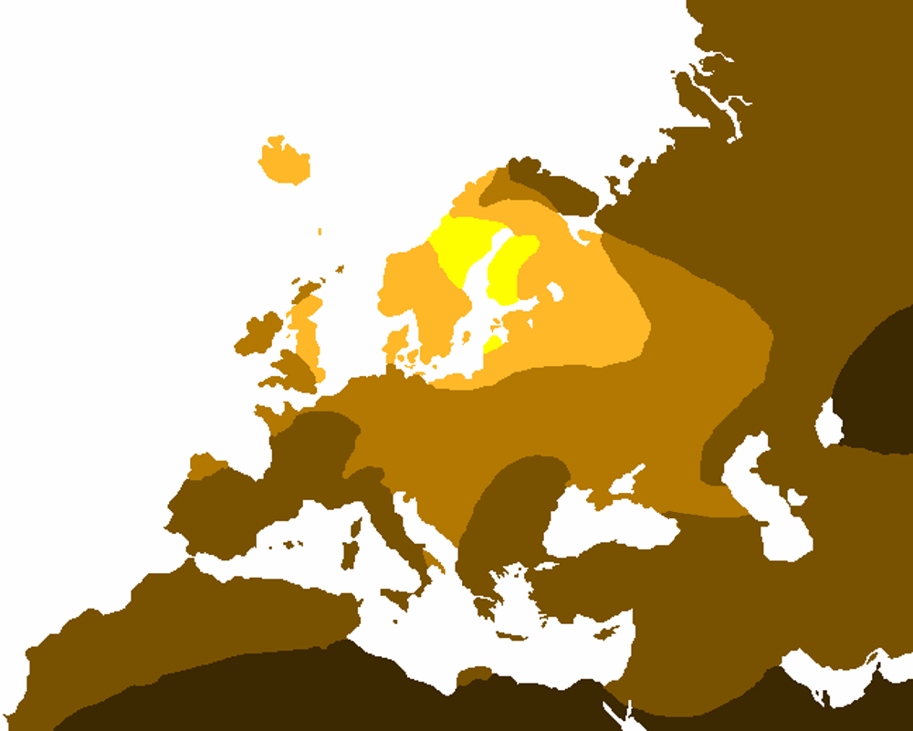 This is a derivative work from a free-use map I found on Wikipedia link. I recolored it. It is a recreation of anthropologist Peter Frost's 2006 study on light hair color (via Beals & Hoijer (1965) An Introduction to Anthropology). yellow represents 80%+ light hair light orange is 50-79% light hair light brown is 20-49% light hair dark brown is 1-19% light hair black represents no presence of light hair In the indigenous population outside of random mutations such as albinoism. I plan to use it in a template where I will label these percentages.--DarkTea 20:47, 9 December 2006 (UTC) This covers blonds, brunets, and blackhairs. Redheads (from strawberry blond to true ginger to auburn) are excluded.